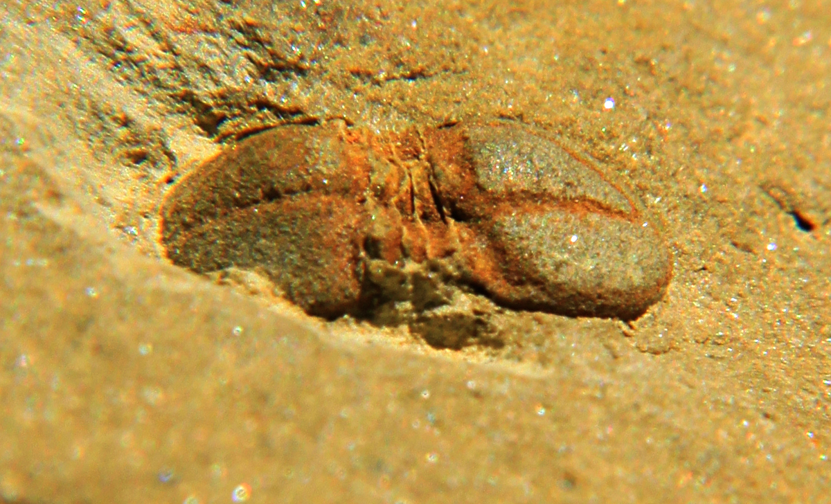 A specimen of Marocconus notabilis (Geyer, 1988), synonym Cephalopyge notabilis, Order Agnostida, Family Weymouthiidae, 8mm along the axis, lateral view, enhanced contrast, collected near Tassmant, Morocco, from the latest Lower Cambrian (Toyonian)